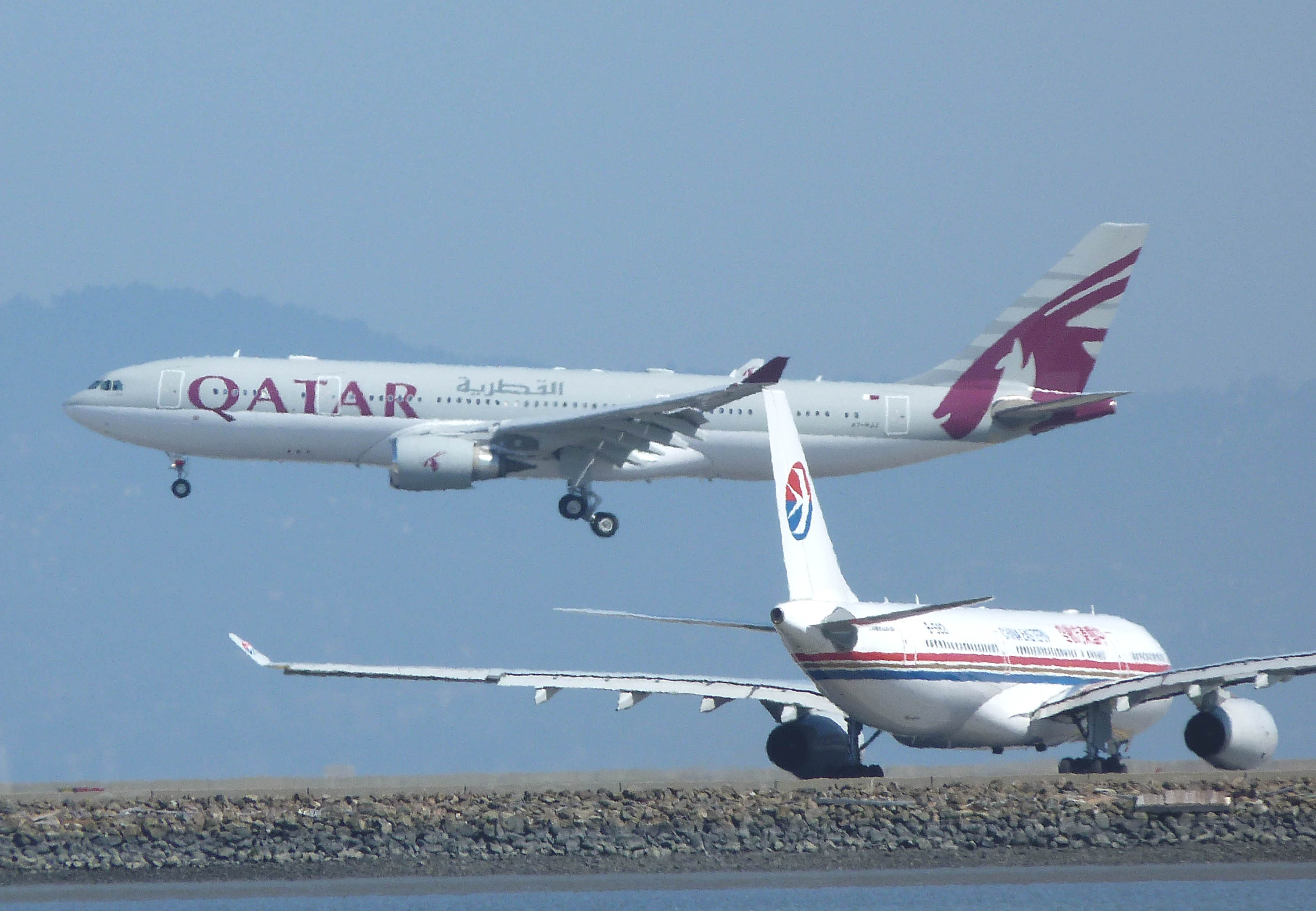 Qatar over China Eastern